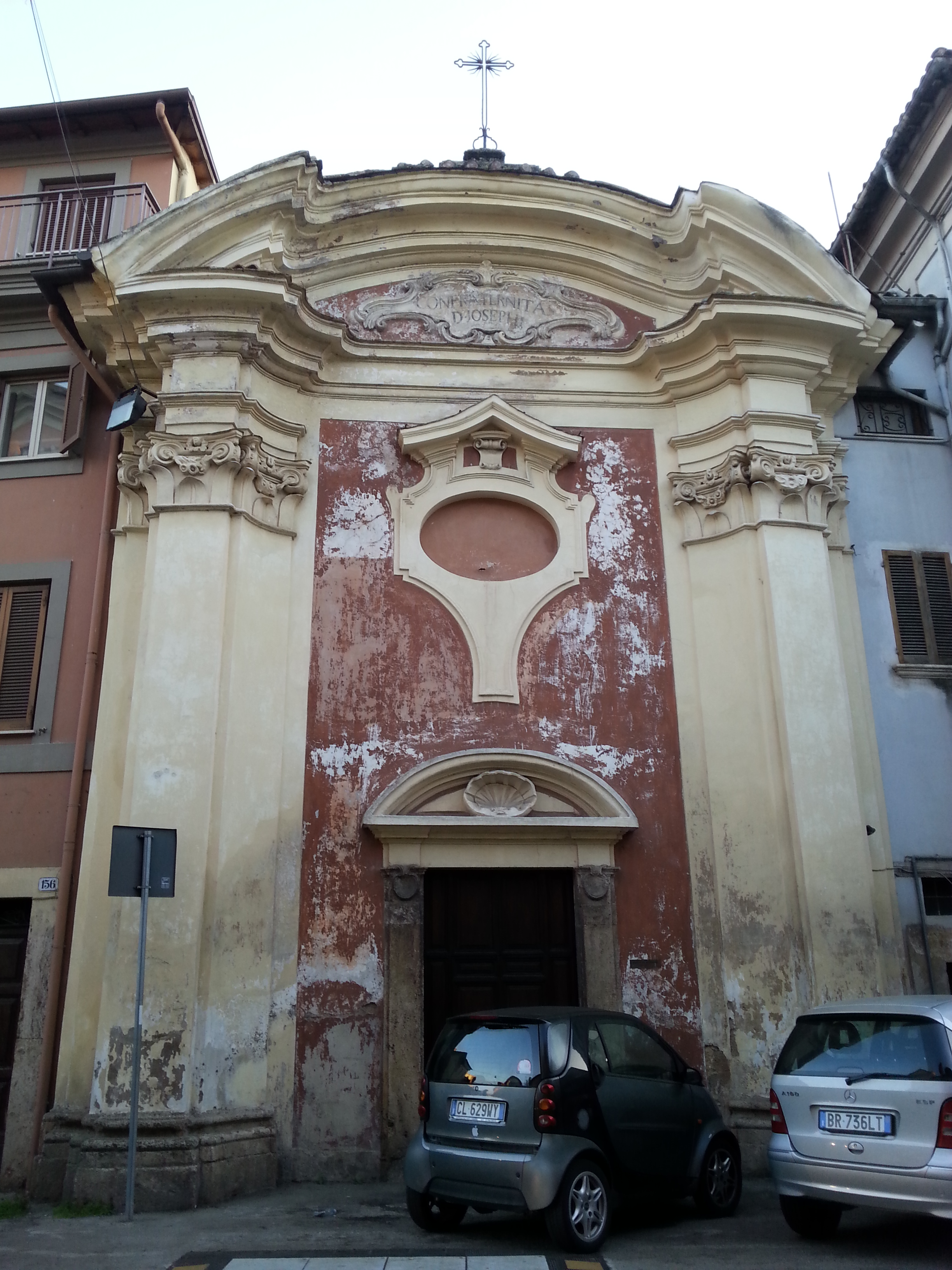 Saint Joseph church - Rieti, Lazio, Italy